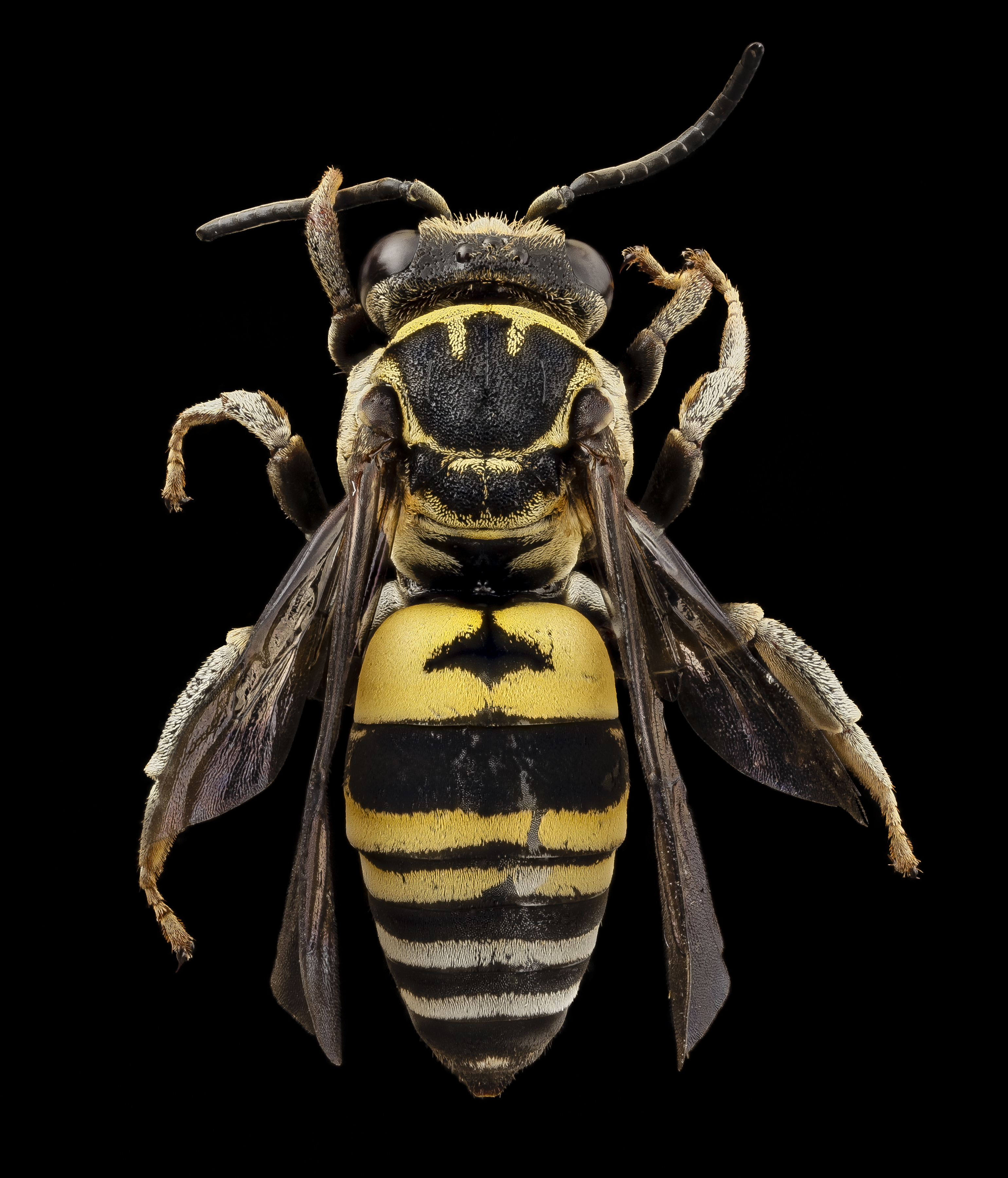 First state record for Maryland. Collected at Eastern Neck National Wildlife Refuge on the Eastern Shore of Maryland in their very lovely pollinator garden. A possible nest parasite of Svastra obliqua which was also collected at the same time. Photography Information: Canon Mark II 5D, Zerene Stacker, Stackshot Sled, 65mm Canon MP-E 1-5X macro lens, Twin Macro Flash in Styrofoam Cooler, F5.0, ISO 100, Shutter Speed 200